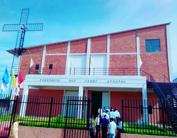 Nuevo templo parroquial de La Palmita